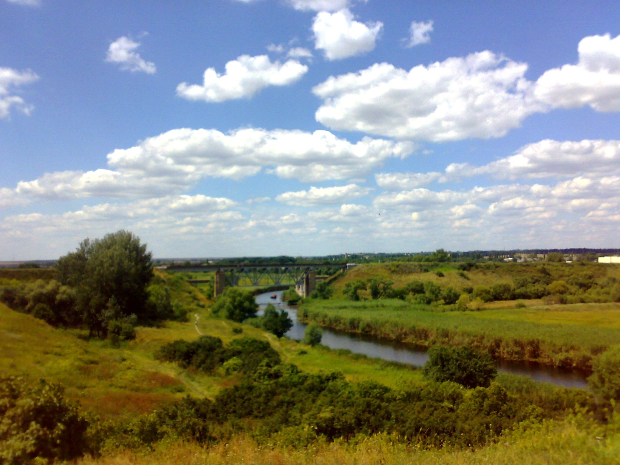 Velyka Vys' River